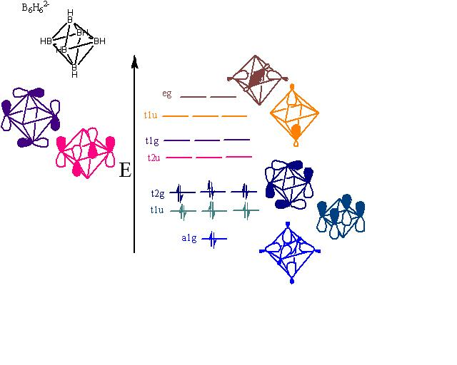 Mo diagram of B6H6 made in chem draw std. Copied from Cotton Chemical Applications of Group Theory pg. 234 and Douglas Concepts and Models of Inorganic Chemistry pg. 828.